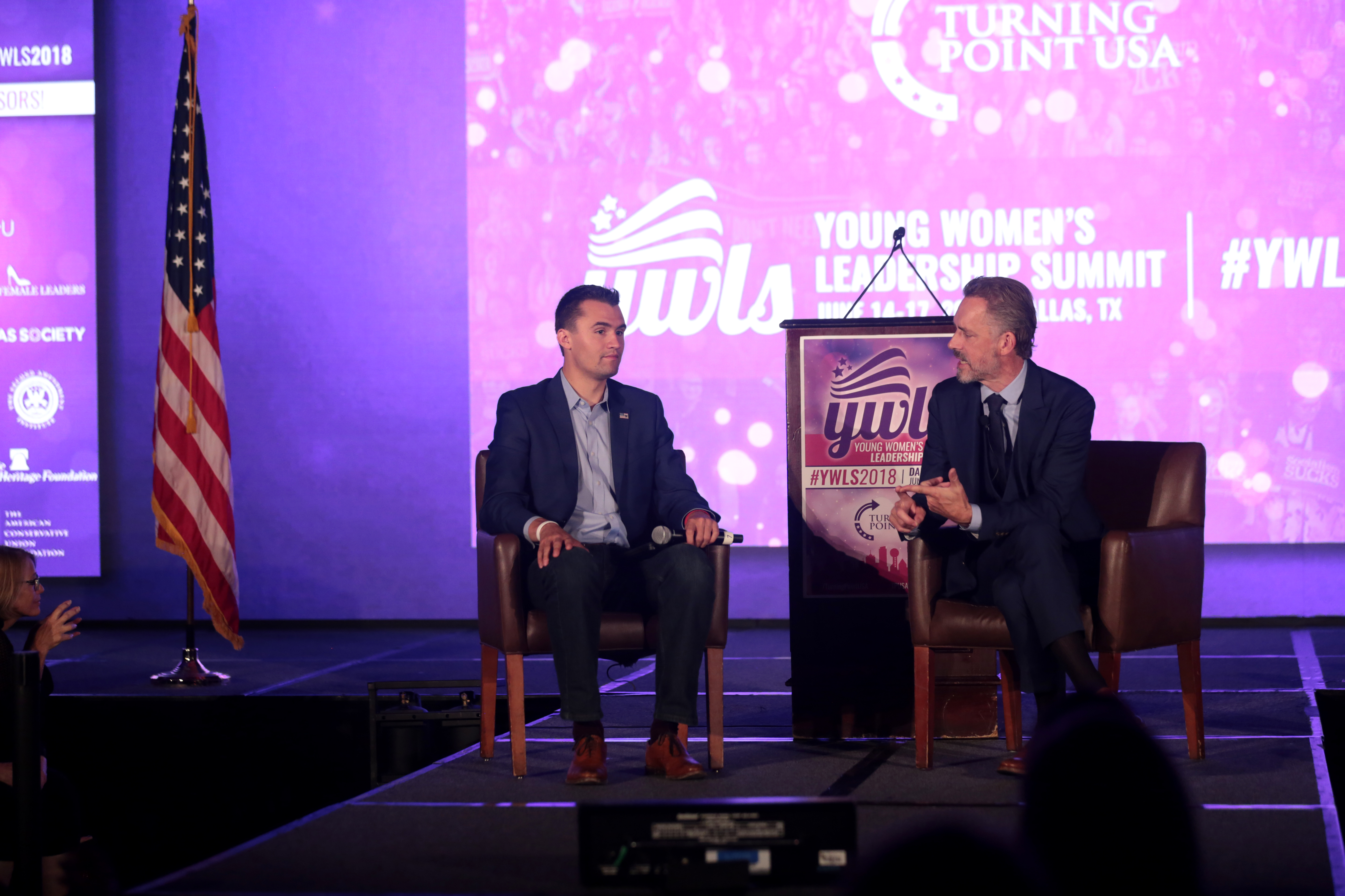 Charlie Kirk and Jordan Peterson speaking with attendees at the 2018 Young Women's Leadership Summit hosted by Turning Point USA at the Hyatt Regency DFW Hotel in Dallas, Texas.